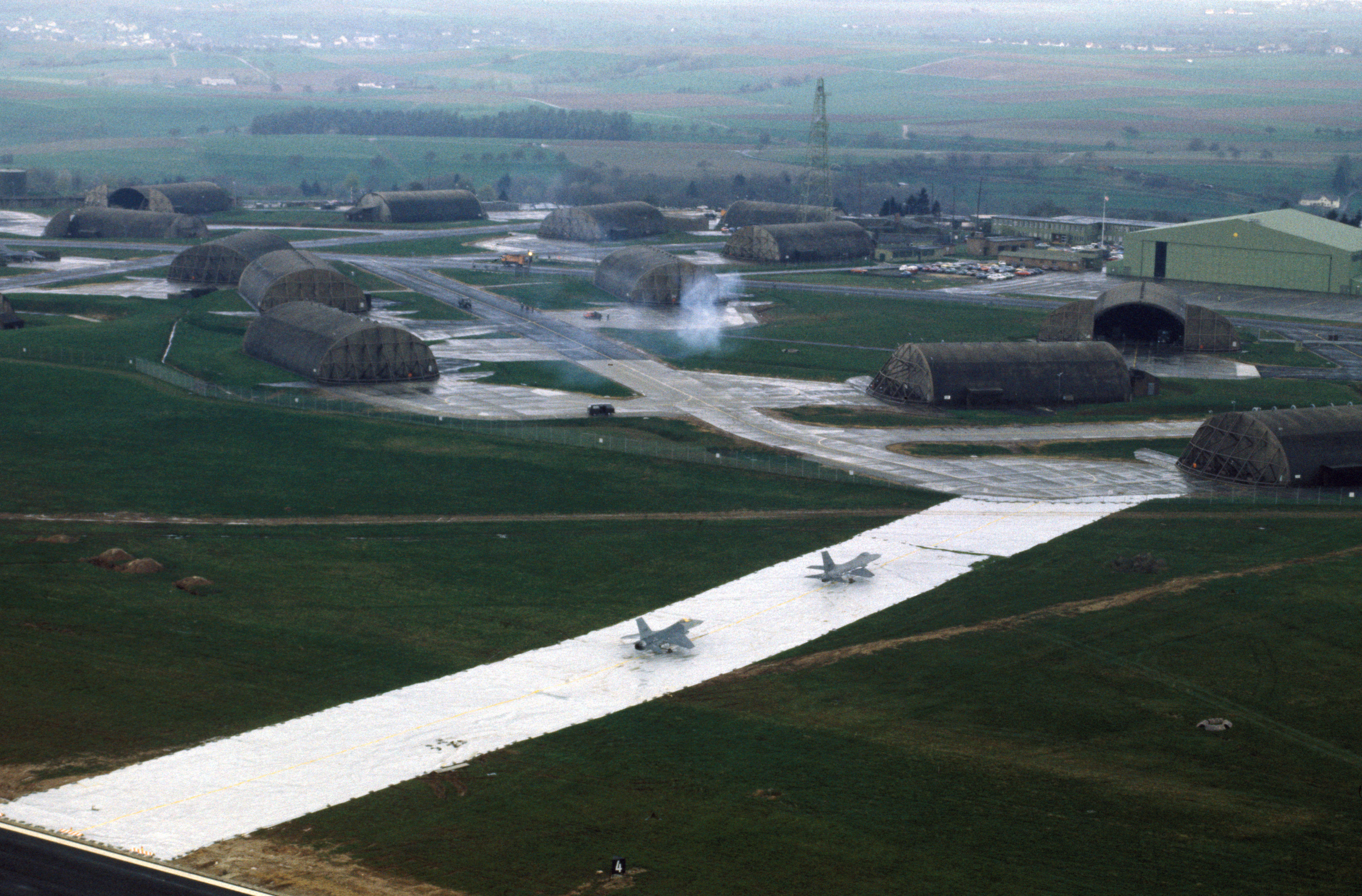 Two U.S. Air Force F-16 Fighting Falcon aircraft mockups parked on a fake taxiway at Spangdahlem Air Base, Germany, deployed during exercise "Salty Demo '85" on 29 April 1985. "Salty Demo '85" was an air base survivability exercise evaluating passive and active defenses, aircraft operation and generation, and base recovery systems.